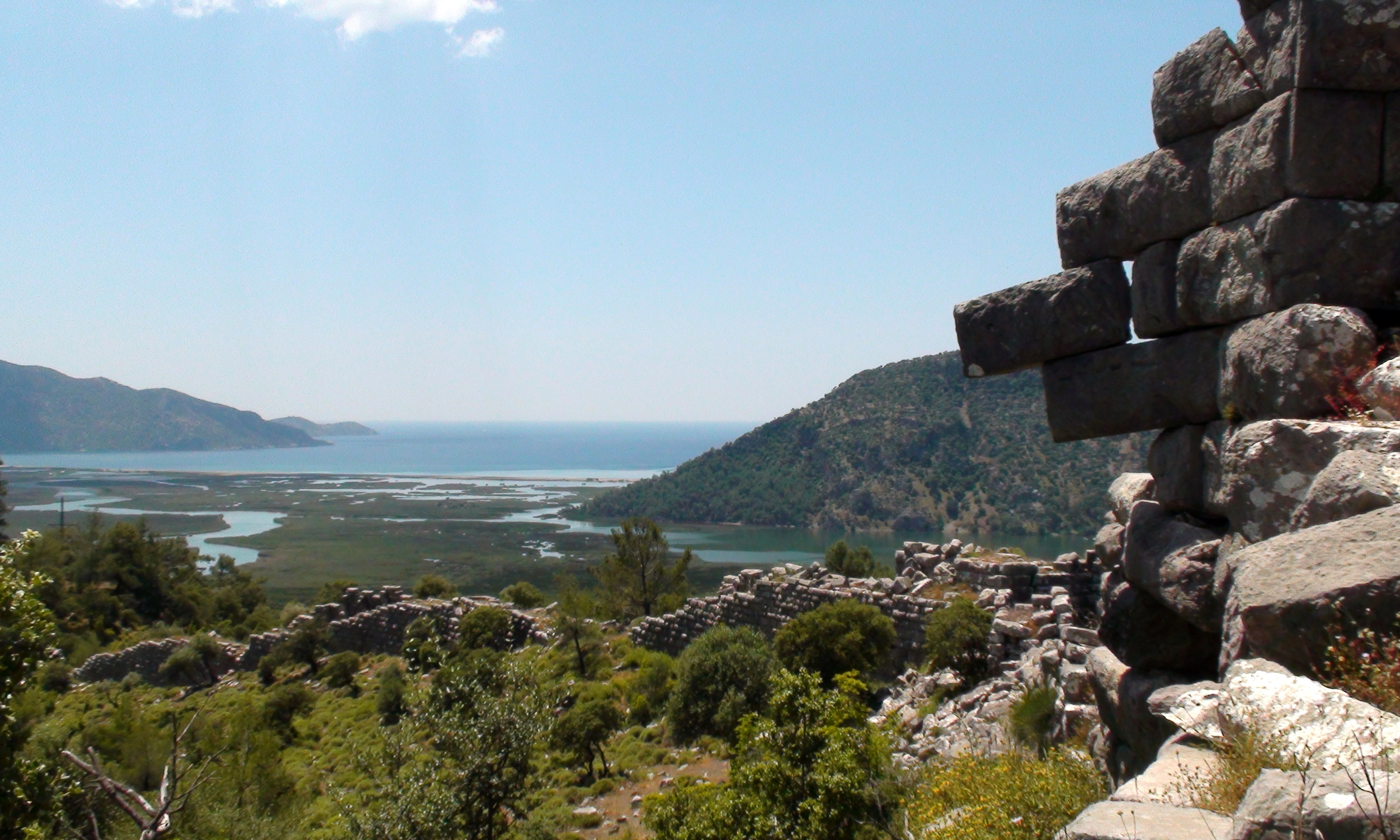 Kaunos city wall with view of Iztuzu Beach